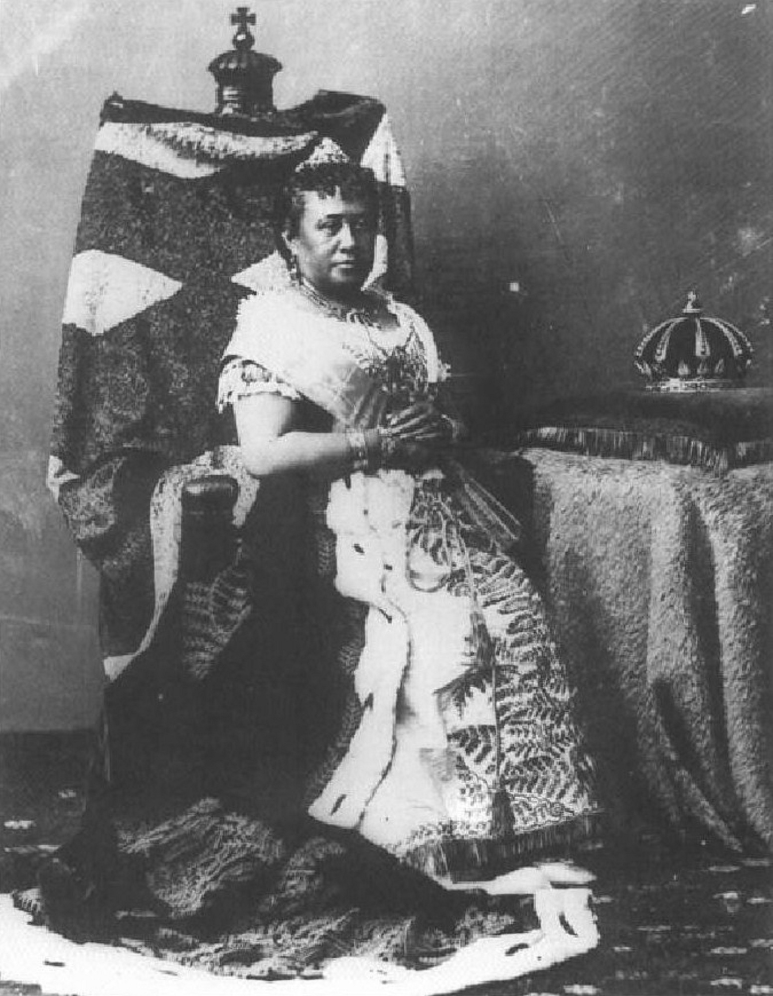 Queen Kapiolani of Hawaii (1834–1899) sitting on chair with crown beside her, an ermine trimming at her robe.